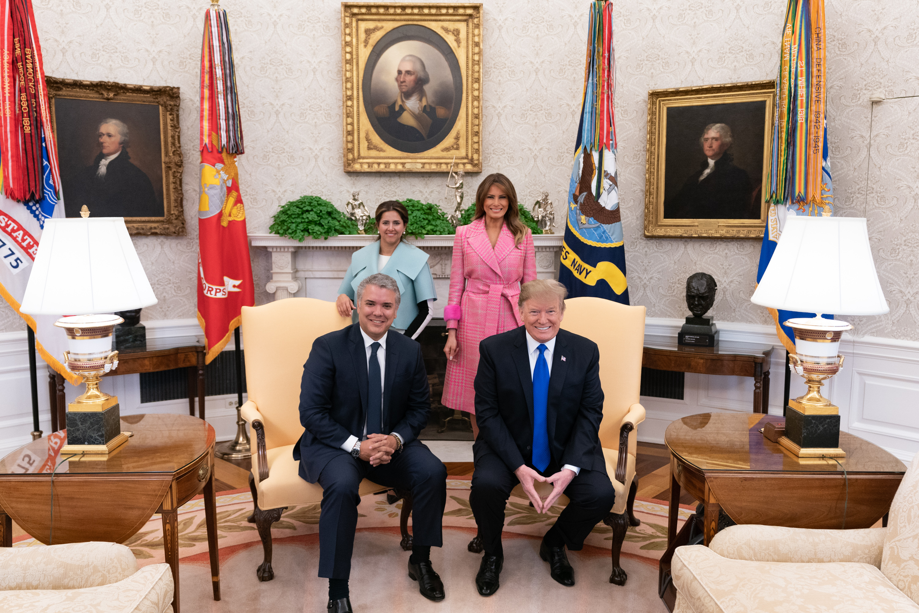 President Donald J. Trump and First Lady Melania Trump meet with Colombian President Iván Duque Márquez and his wife Mrs. Maria Juliana Ruiz Sandoval Wednesday, Feb. 13, 2019, in the Oval Office of the White House. (Official White House Photo by Shealah Craighead)